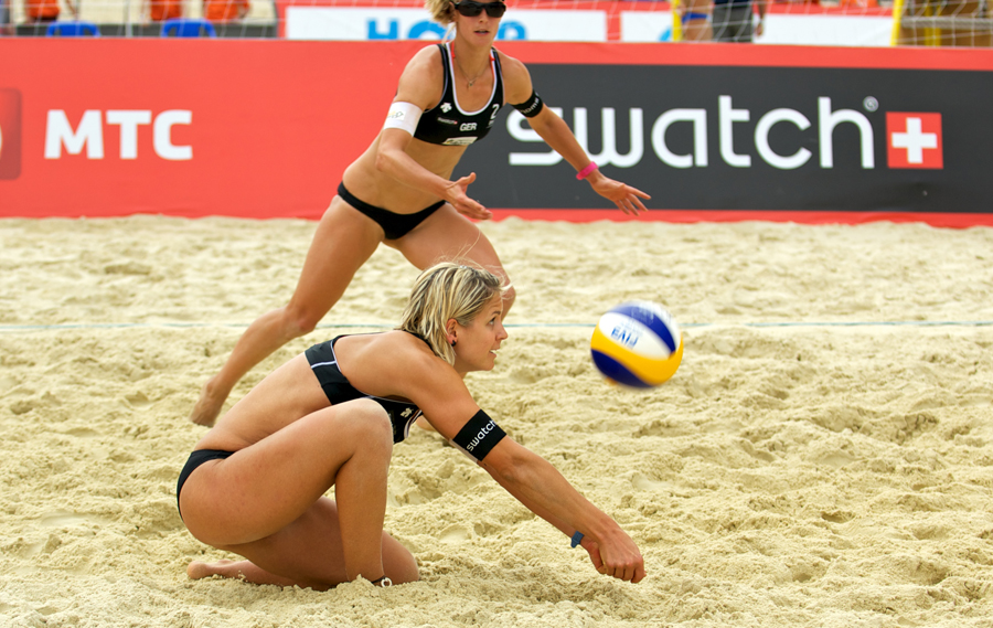 Grand Slam Moscow 2012